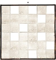 Grating used to decode message in Part I of Mathias Sandorf.